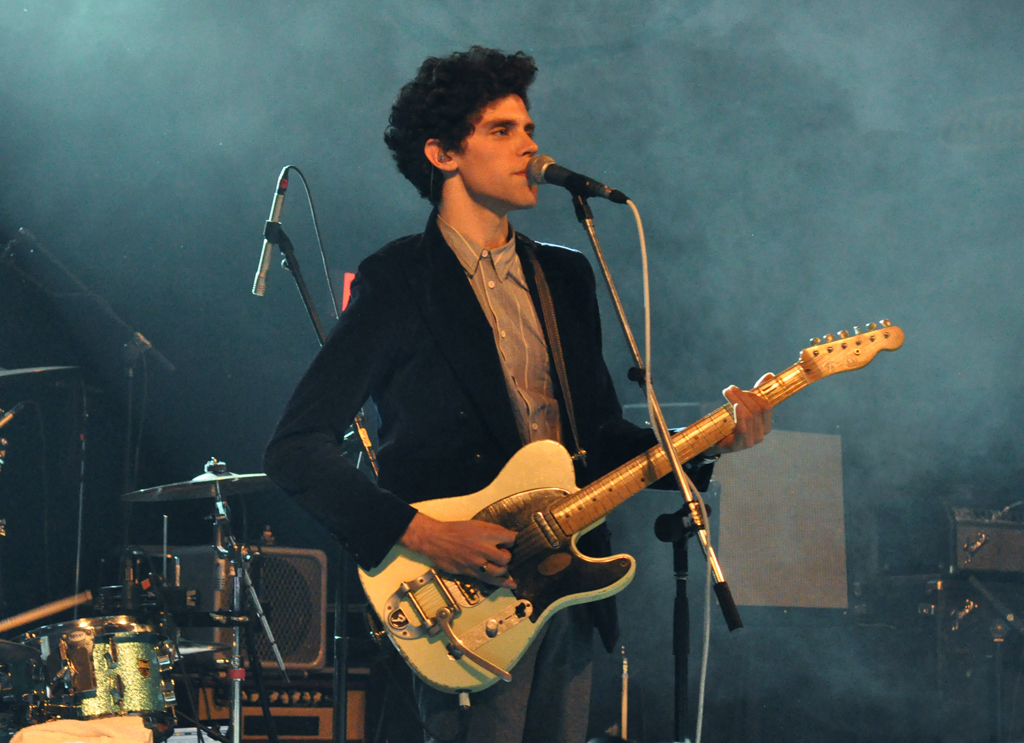 Noah and the Whale, AOL Music Showcase, Stubb's Bar-B-Q, South by Southwest 2011, Austin, Texas, March 17, 2011